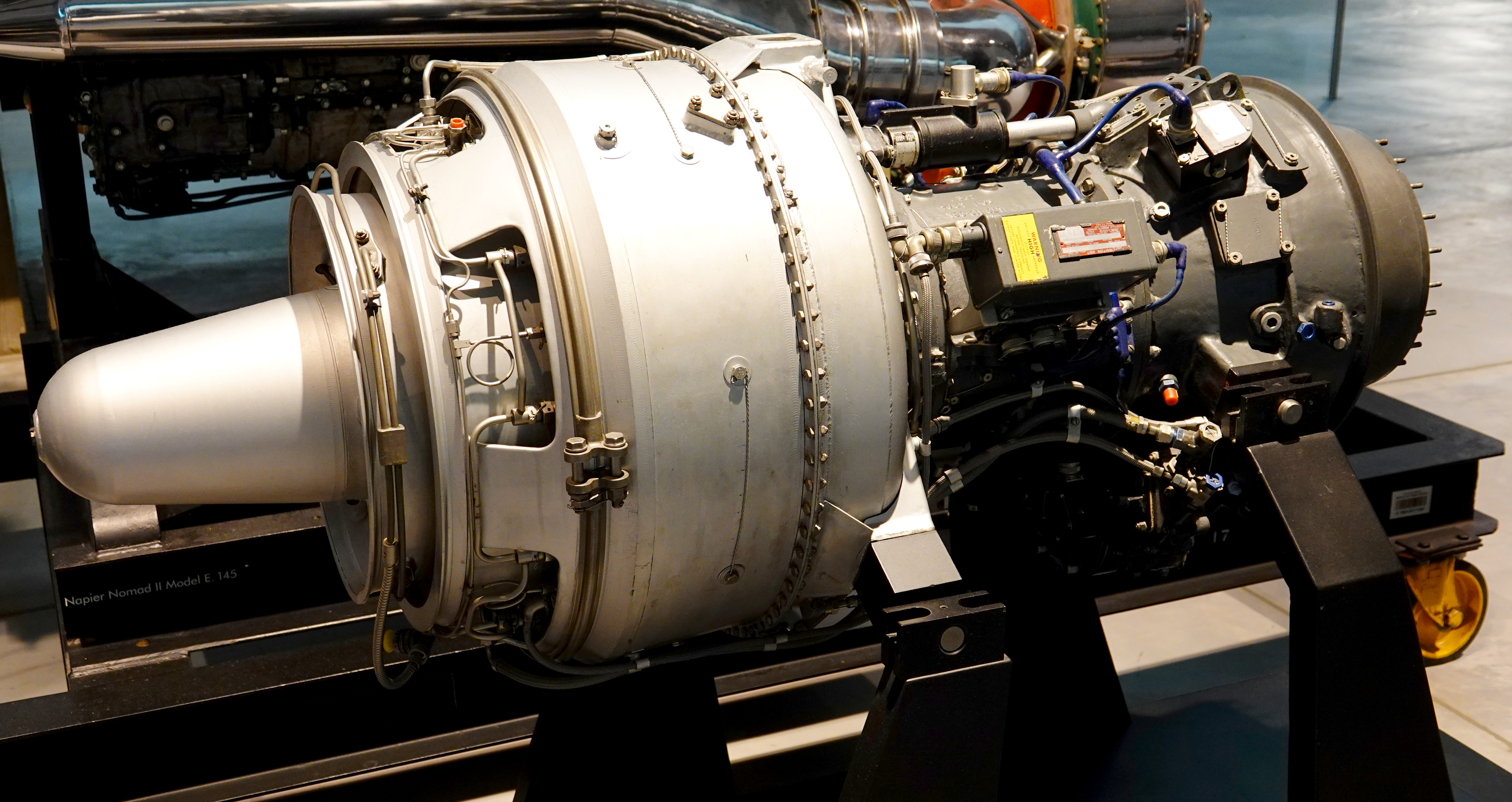 In response to an Air Force request in 1952 for a 500- to 700-horsepower turboprop engine, Lycoming produced two designs, both of which could be converted to turboshafts to power helicopters by removing the propeller gearbox. Lycoming was awarded a contract to develop a free-turbine turboshaft engine, designated LTC1 (military designation T53-L-1). It was military qualified in 1958, and the first production engine was delivered in 1959. The front-drive, concentric-shaft design became a widely accepted U.S. standard for turboshaft engines. The T53 gave Lycoming its start in the aircraft gas turbine business and played a key role in the expansion of the Army’s airmobile role during the Vietnam War. The T53 was used on the Bell UH-1 Iroquois (Huey) and AH-1 HueyCobra helicopters and the Grumman OV-1 Mohawk airplane. Picture taken at the National Air and Space Museum's Steven F. Udvar-Hazy Center in Chantilly, Virginia, USA. Specifications: Type: turboshaft Power/speed: 641 kW (860 hp) at 21,510 rpm Compressor: 5-stage axial flow, 1-stage centrifugal flow Combustor: reverse flow, 11 fuel nozzles Turbine: 1-stage axial-flow gas generator turbine, stage axial-flow free power turbine Manufacturer: Lycoming Div., Avco Corp, Stratford, Conn. Gift of Lycoming Division, Avco Corporation